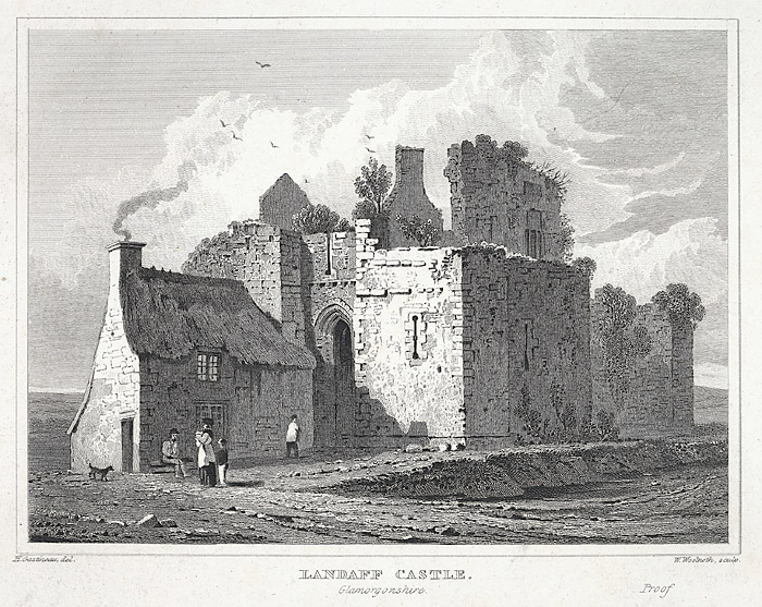 A view of the ruins of Llandaff Castle with four people standing in the foreground.